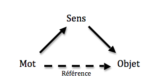 A diagram of the sense-reference triangle, as per Kaplan's "On Indexicality."